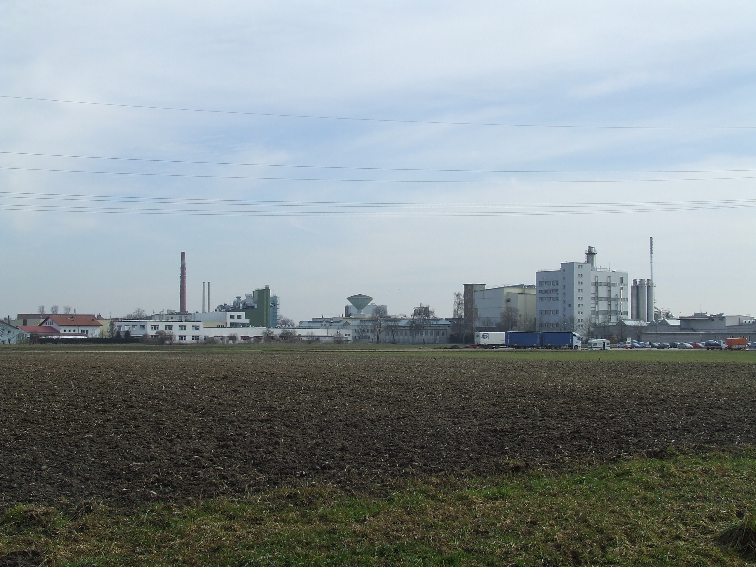 Factory of Hoechst AG in Bobingen, Germany